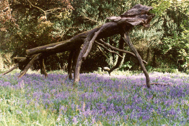 Helland Bridge, a "Stick Insect" at Tredethy. This is a branch broken off a tree at the Tredethy Country Hotel, and the way that it landed reminded me of the stick insects my daughter had when she was at school.